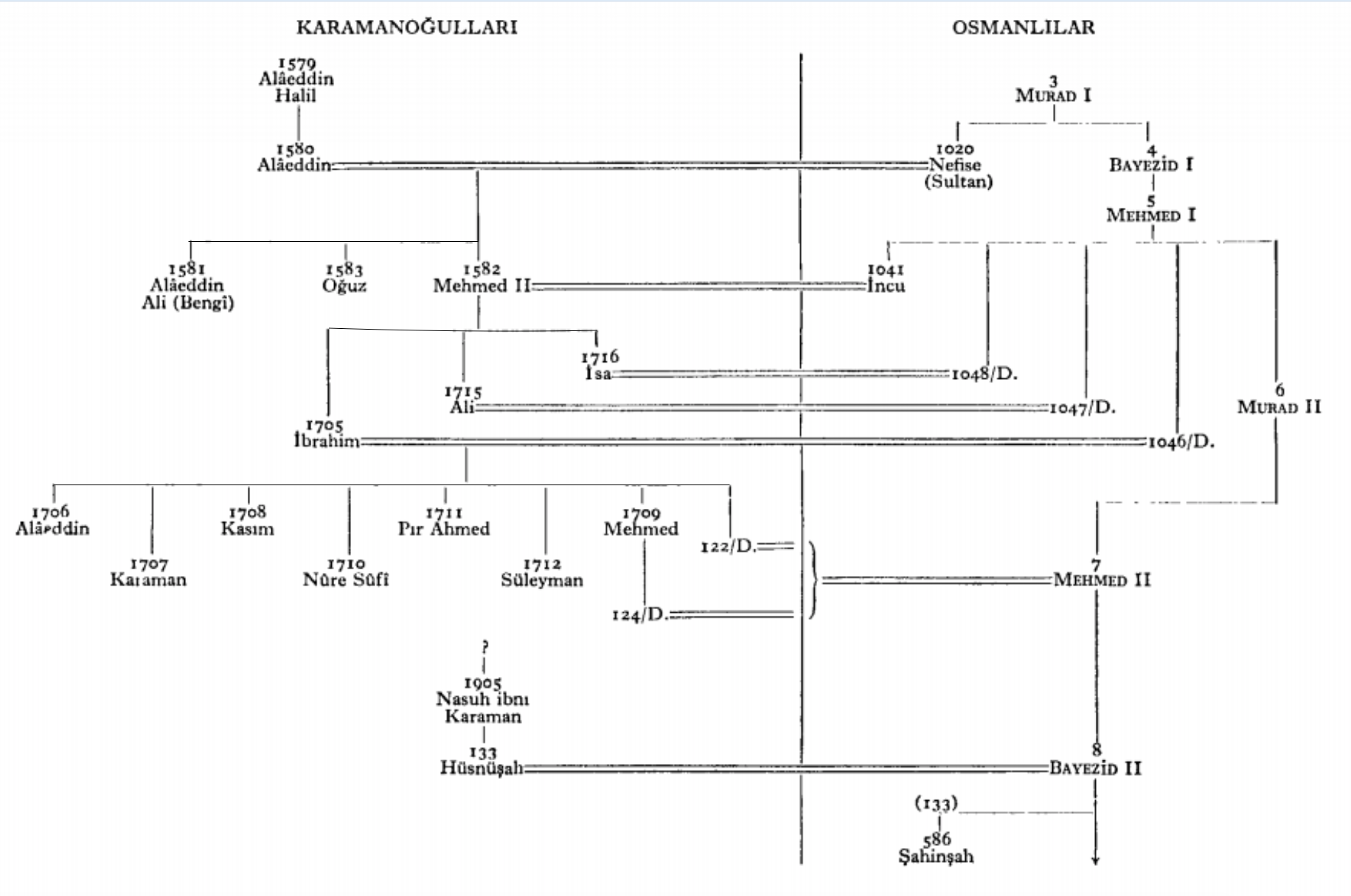 Karamanids and Osmanogullari